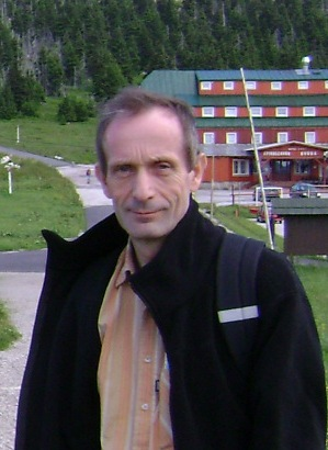 Professor Tomasz Polak